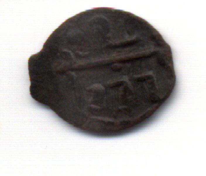 Moroccan Felus of Mohamed IV minted in 1860 (1277 Hegira) found in Navamorales (Salamanca). Chronology of Moroccan chiefs who minted felus: Suleiman II-1206/38-(1792/1822 AC), minted coins of 1, 2 and 4 felus. Abd-Al-Rahman-1238/76.-(1822/59 AC), minted coins of 1/2 felus, 1,2 and 3 felus. Mohamed IV. 1276/90.-(1859/73 AC), minted coins of 1-2 and 3 felus.